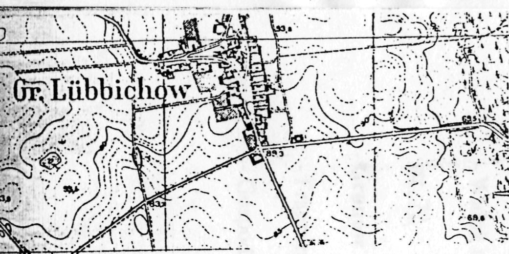 Historical village plan of Groß Lübbiechow (Lubiechnia Wielka) from 1939